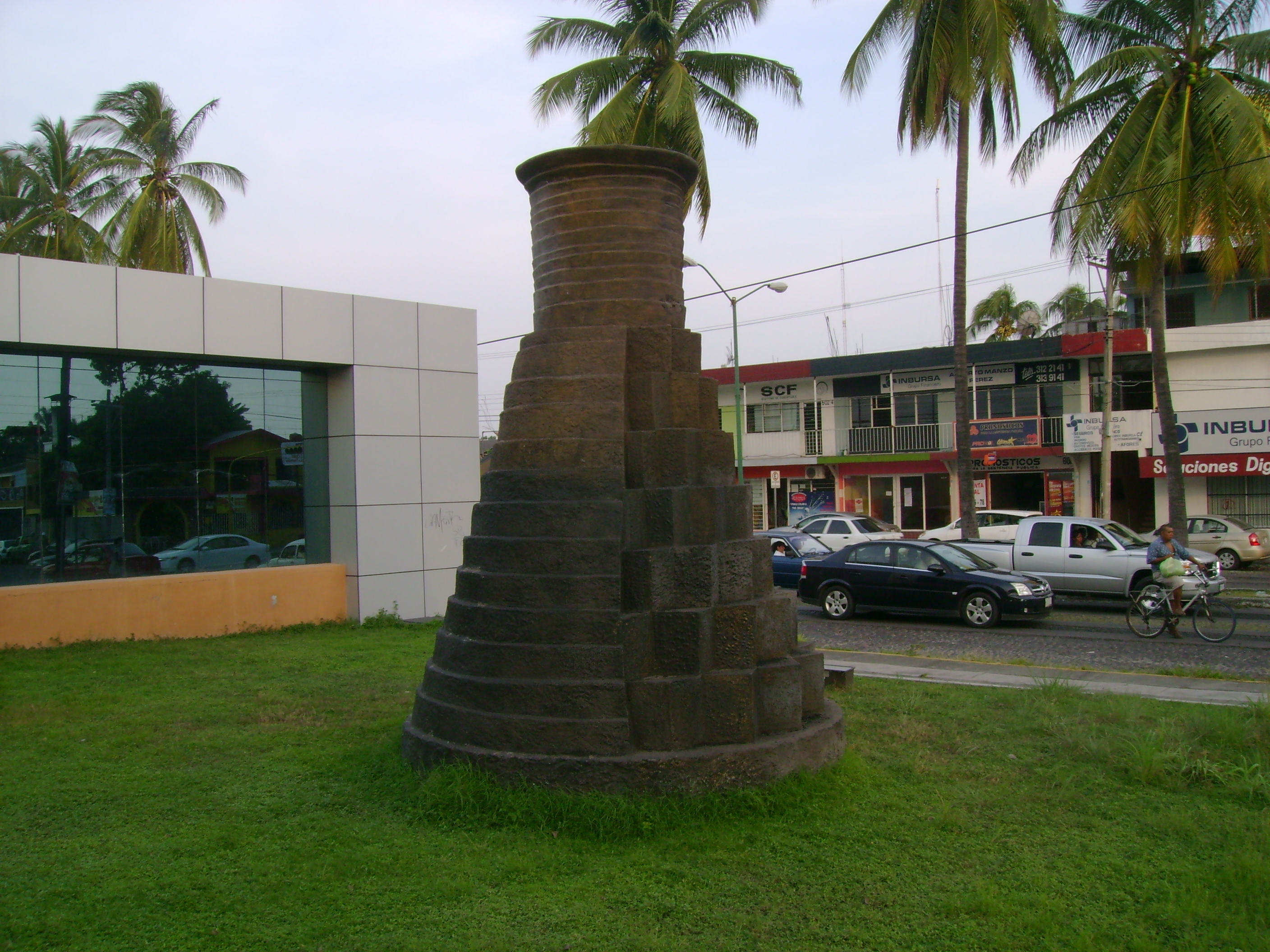 "Volcano" of Vicente Rojo in Colima City